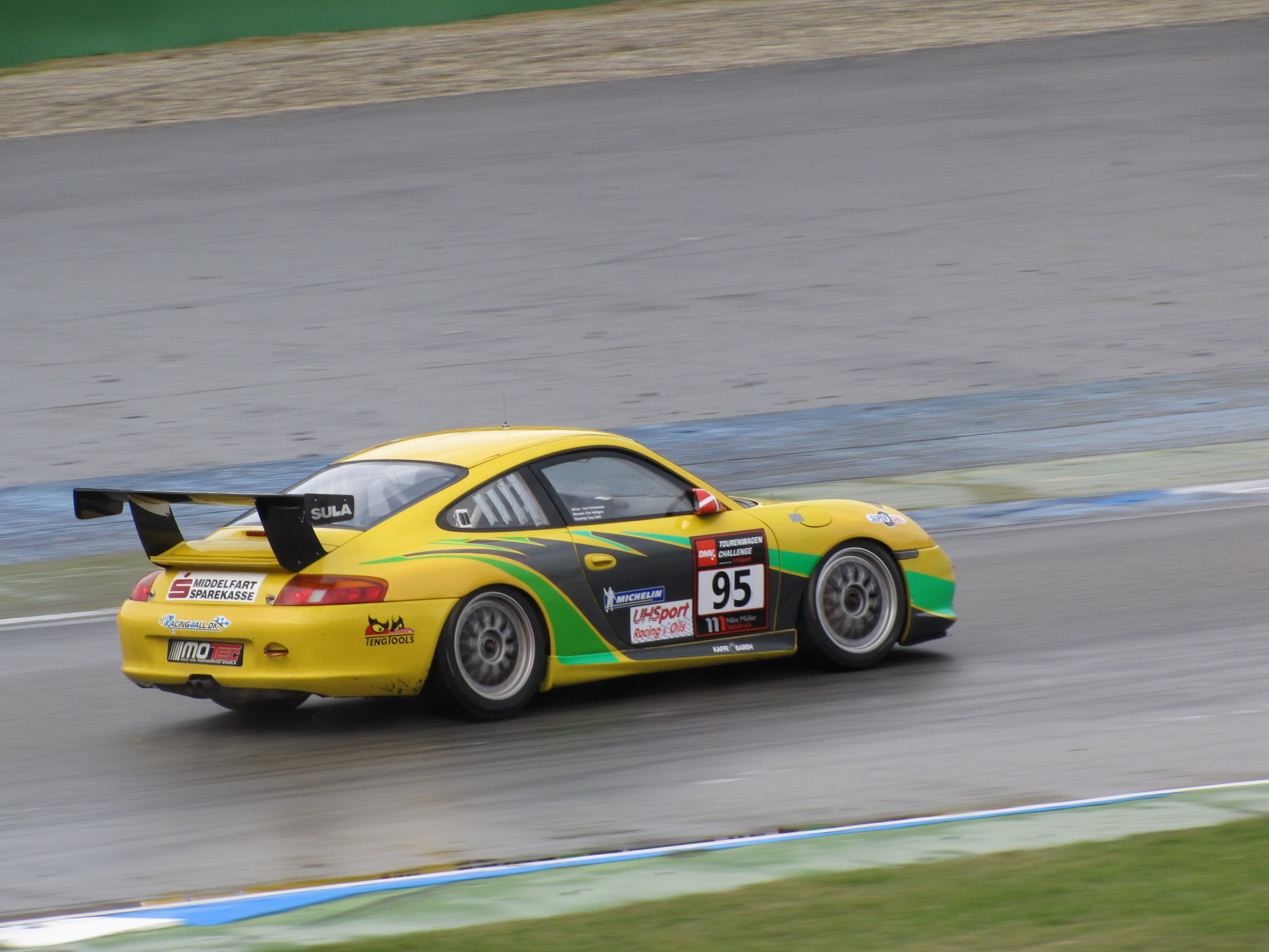 Porsche 996 GT3 Cup at the Rheintal race 2009